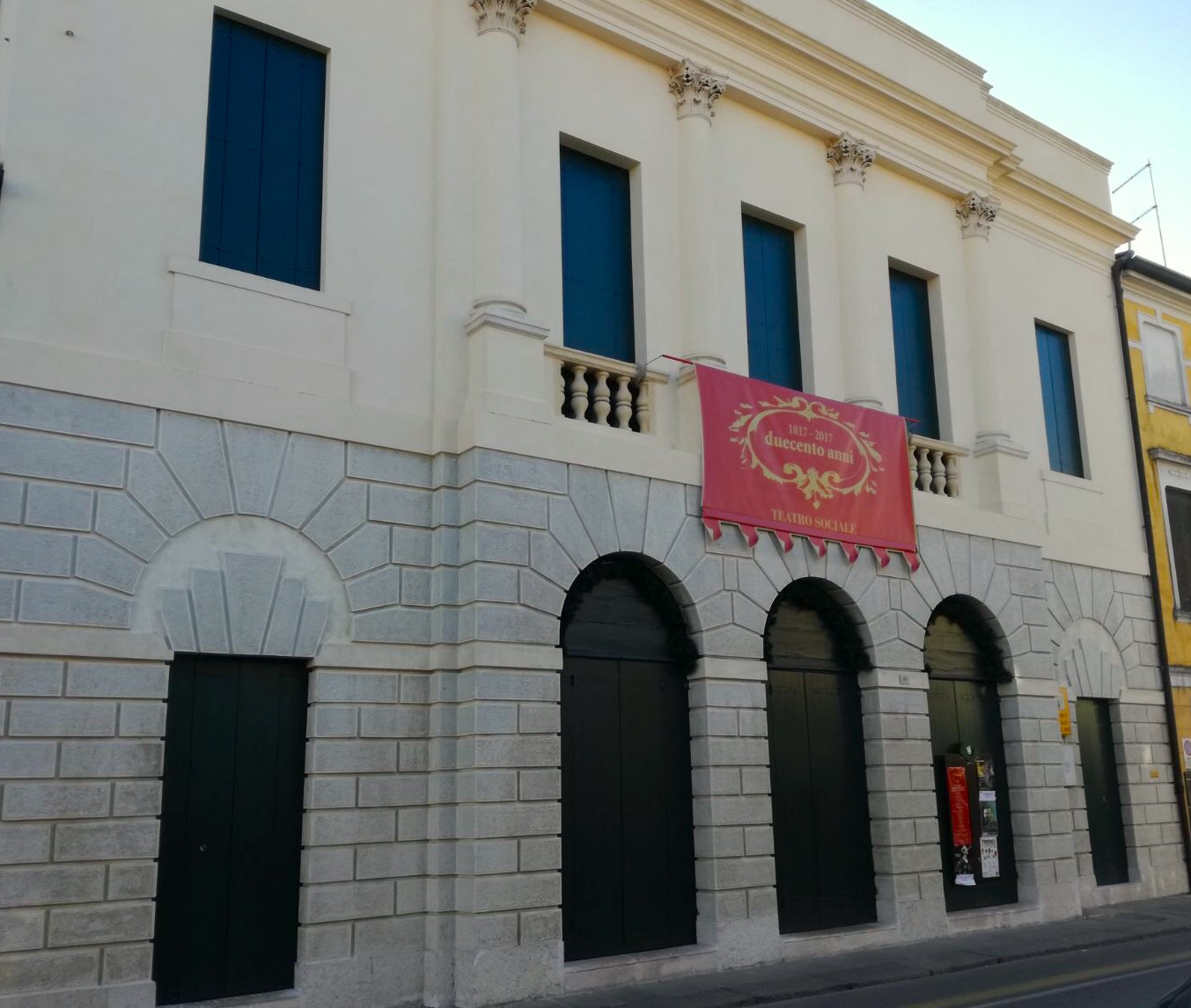 Social theater of Cittadella